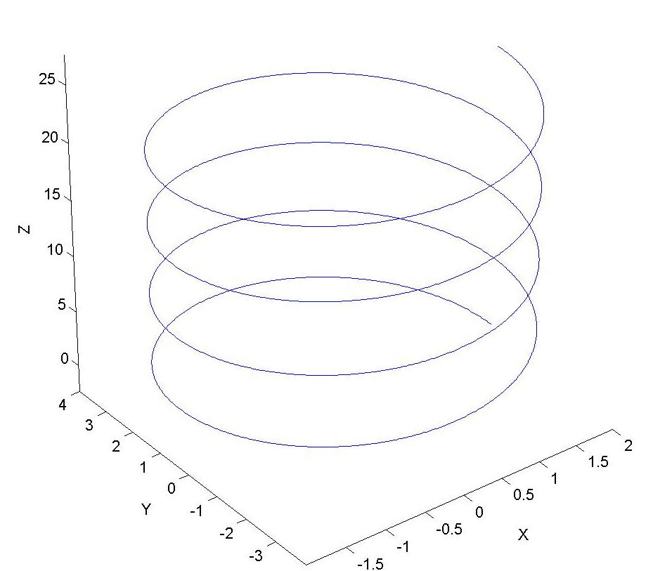 This a graph of a vector-valued function I created in matlab. The graph is of the curve: where t goes from 0 to 8 pi.